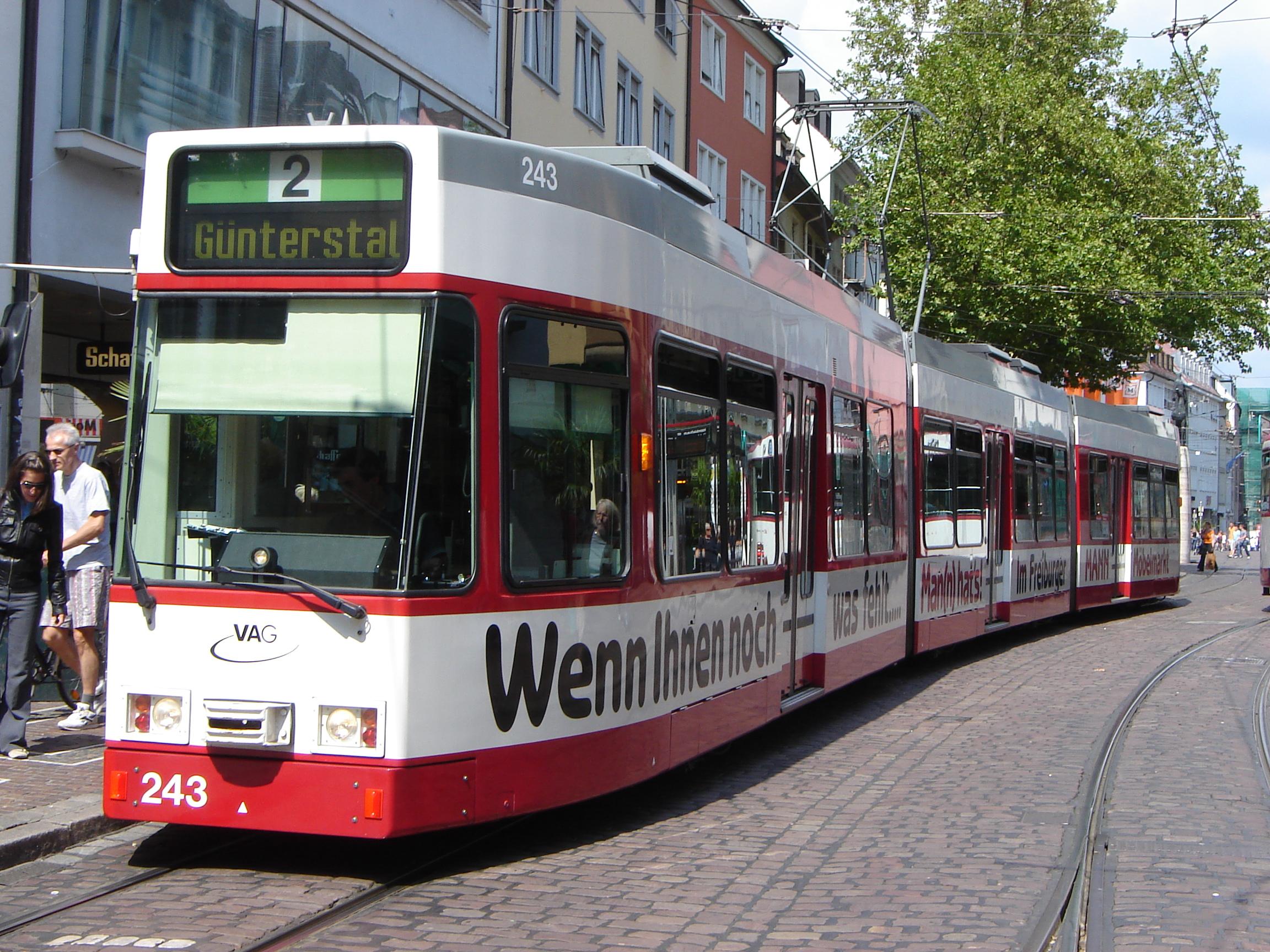 Tram typ GT8Z